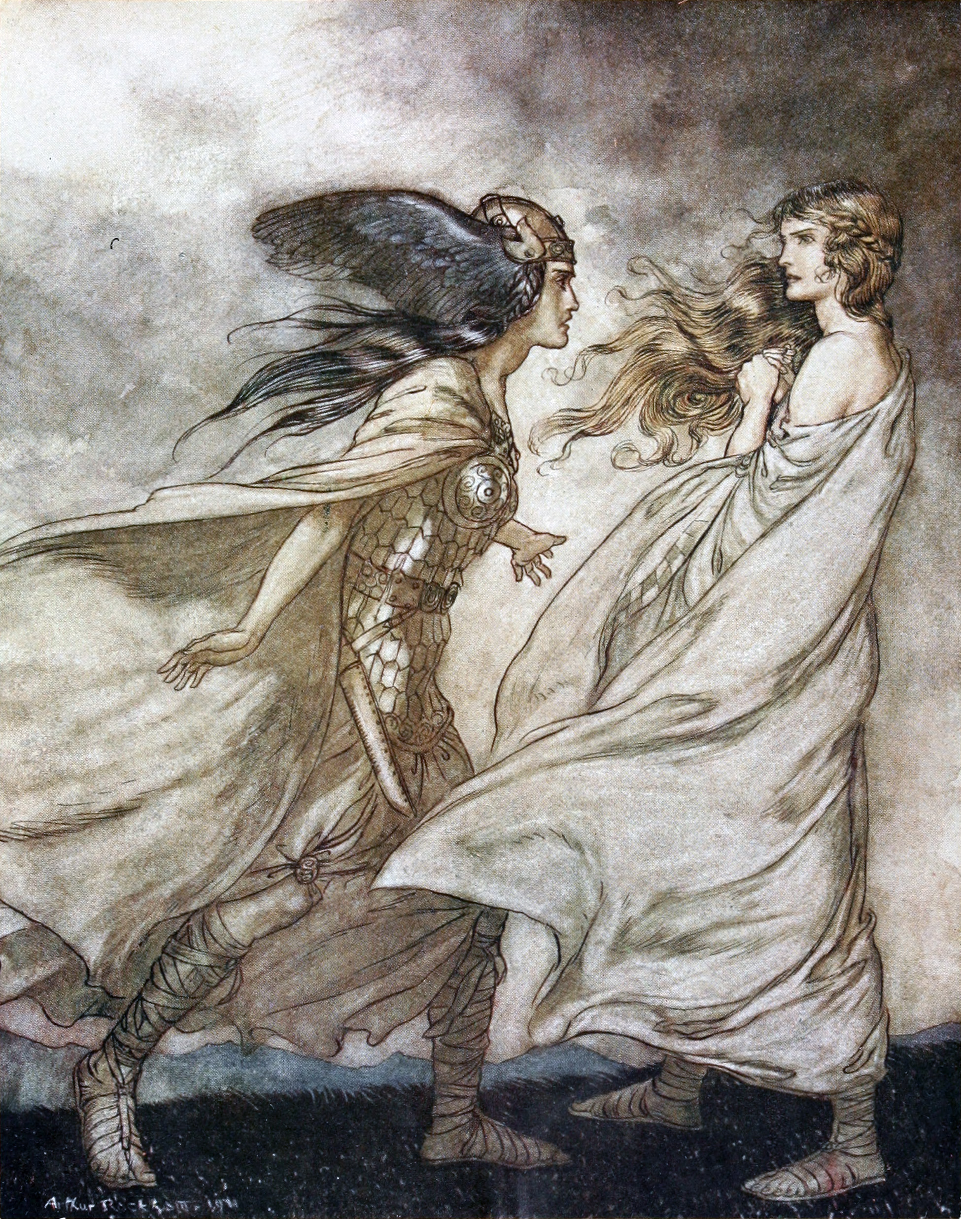 "The ring upon thy hand— / ... ah, be implored! / For Wotan fling it away!"